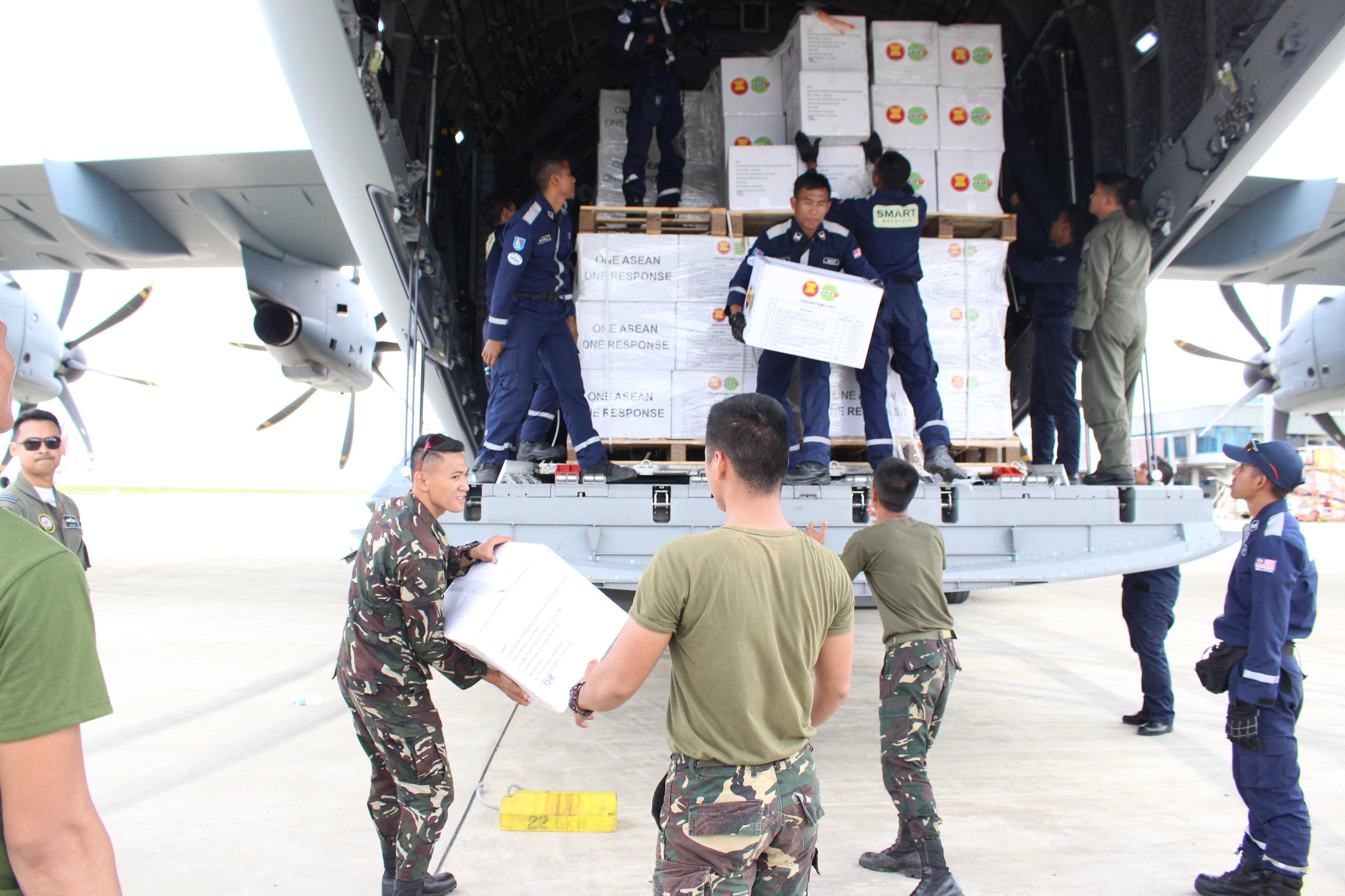 The Association of Southeast Asian Nations (ASEAN) through the ASEAN Coordinating Centre for Humanitarian Assistance in Disaster Management (AHA Centre) hands over relief items and equipment for the internally displaced persons from Marawi City and other affected localities.